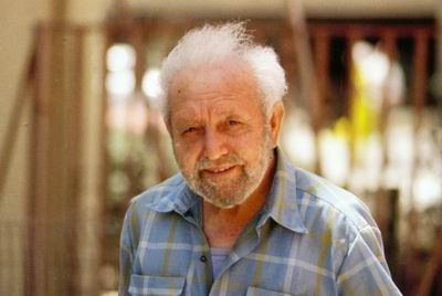 Photograph